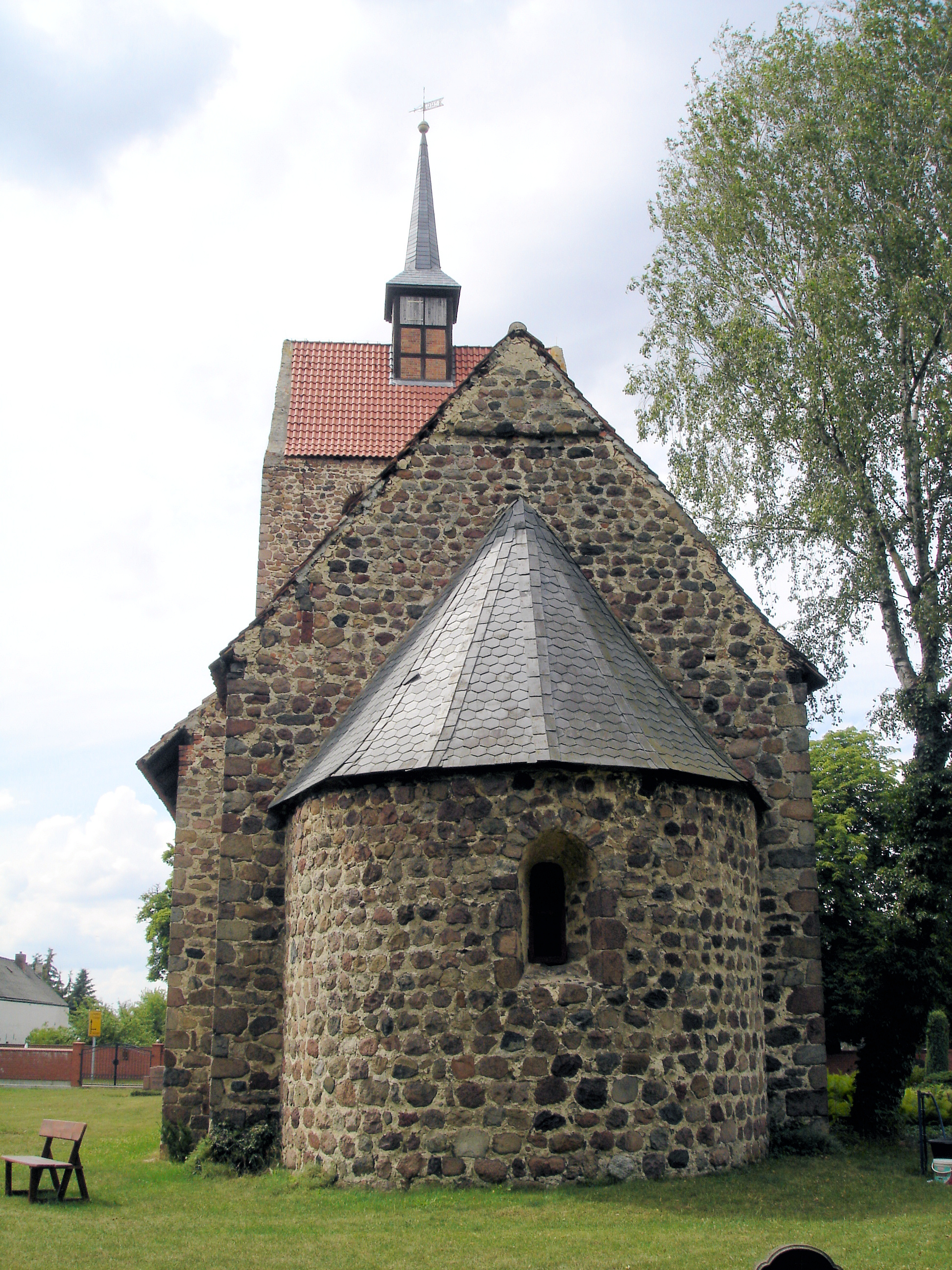 Church in Winterfeld, Saxony-Anhalt, Germany